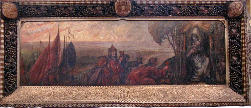 Reginald Hallward oil painting